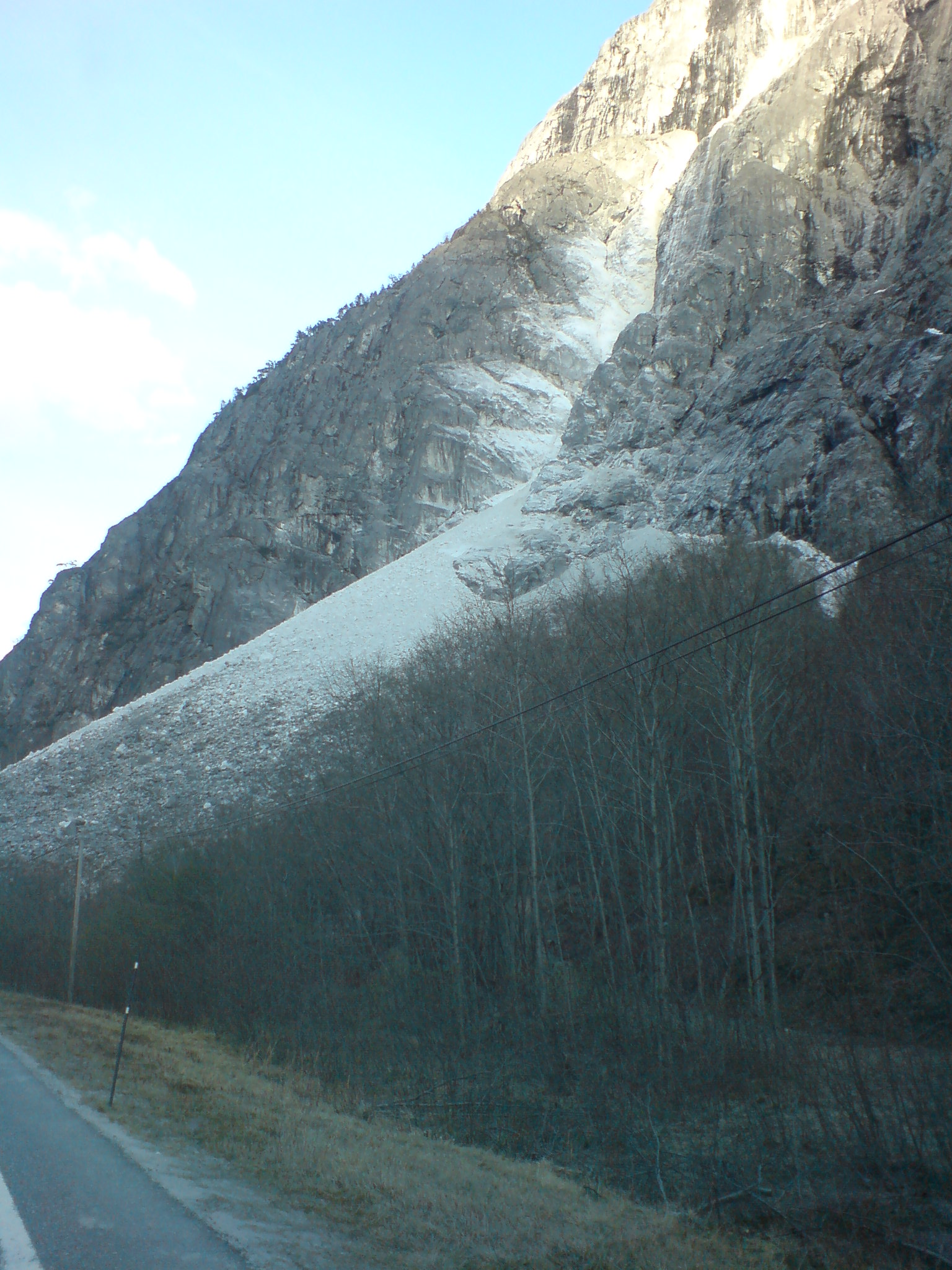 Rock slide in Nærøydalen